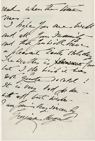 Page 2 of a letter by Georgina Hogarth (see previous file for page 1)